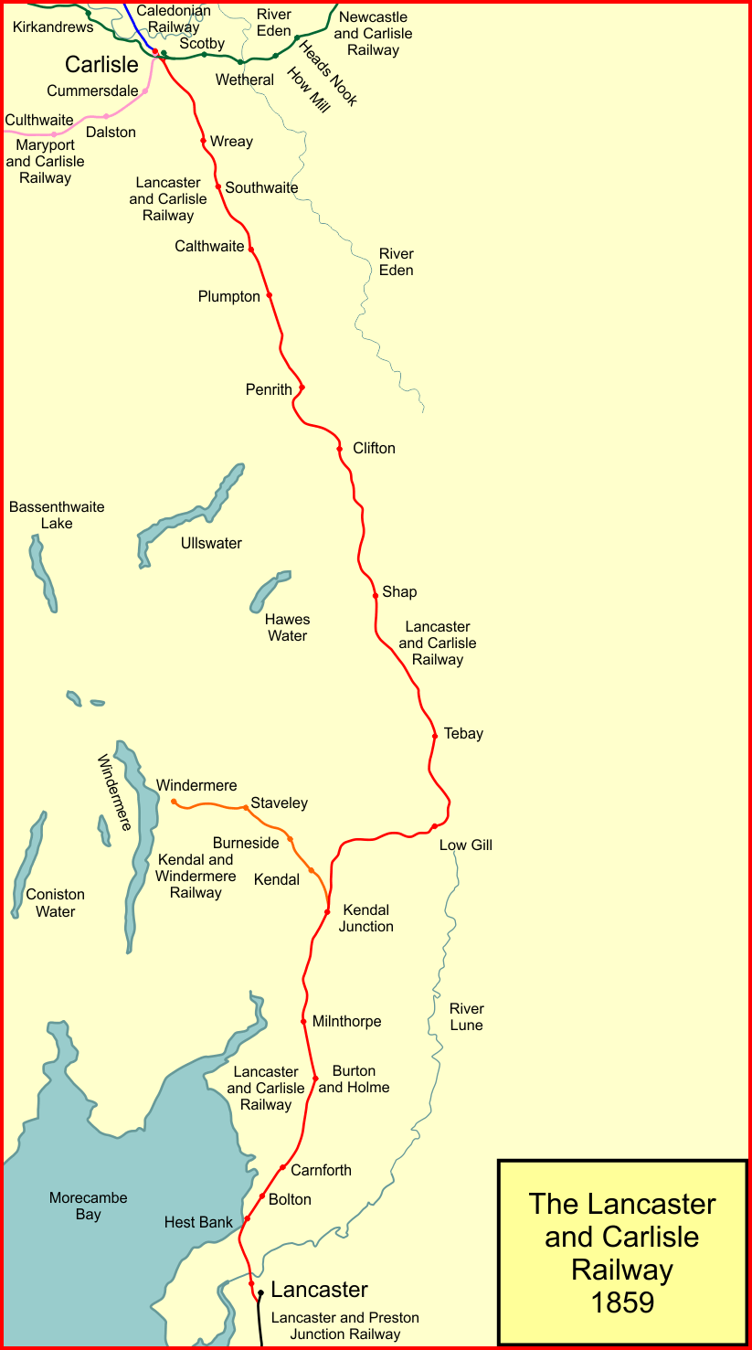 Map showing the route of the Lancaster and Caerlisle Railway, England, in 1859